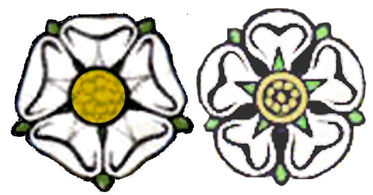 The white rose of York, when depicted at small size is rendered more simply as a graphic image.